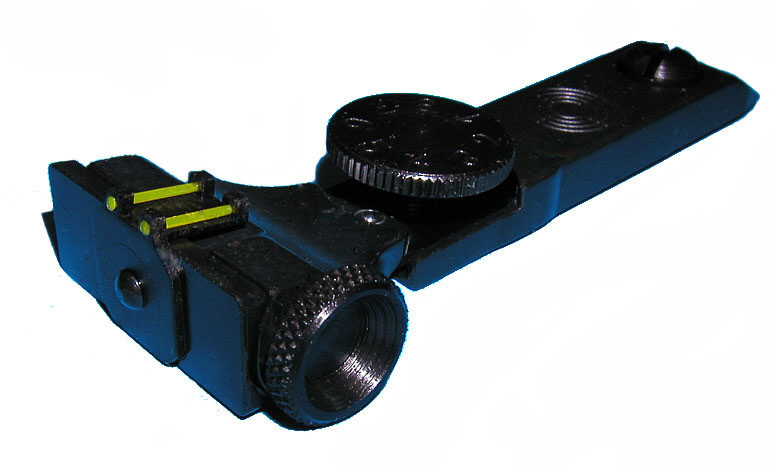 Adjustable open sight rear element with green fibre optic contrast ehancements.